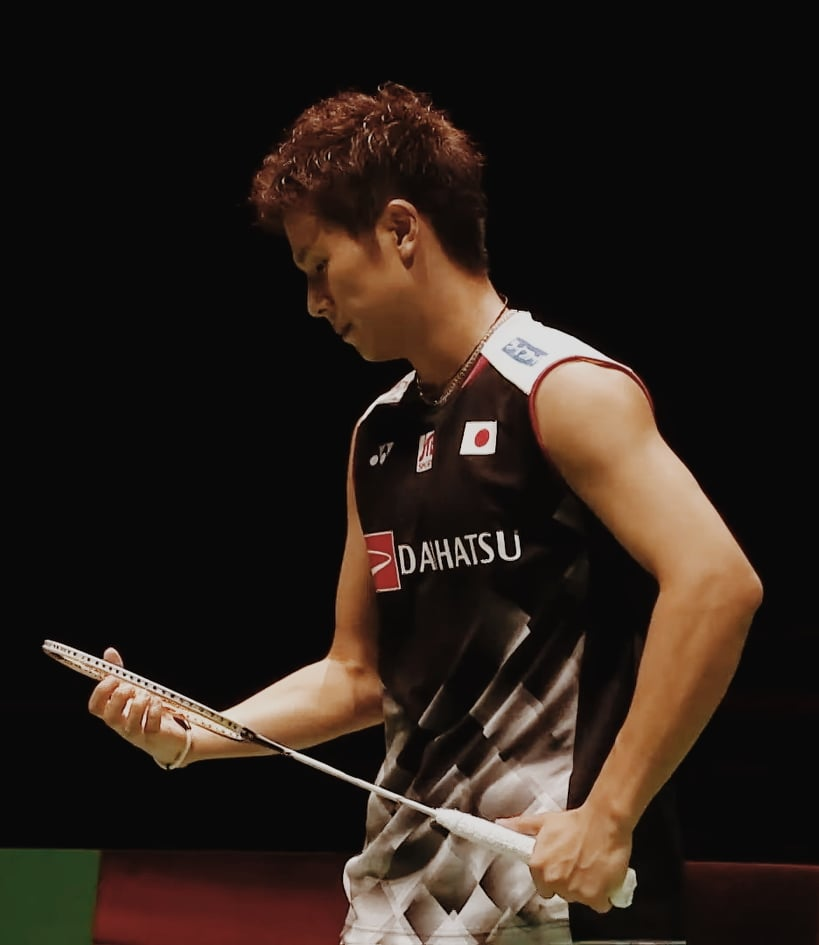 edit by myself